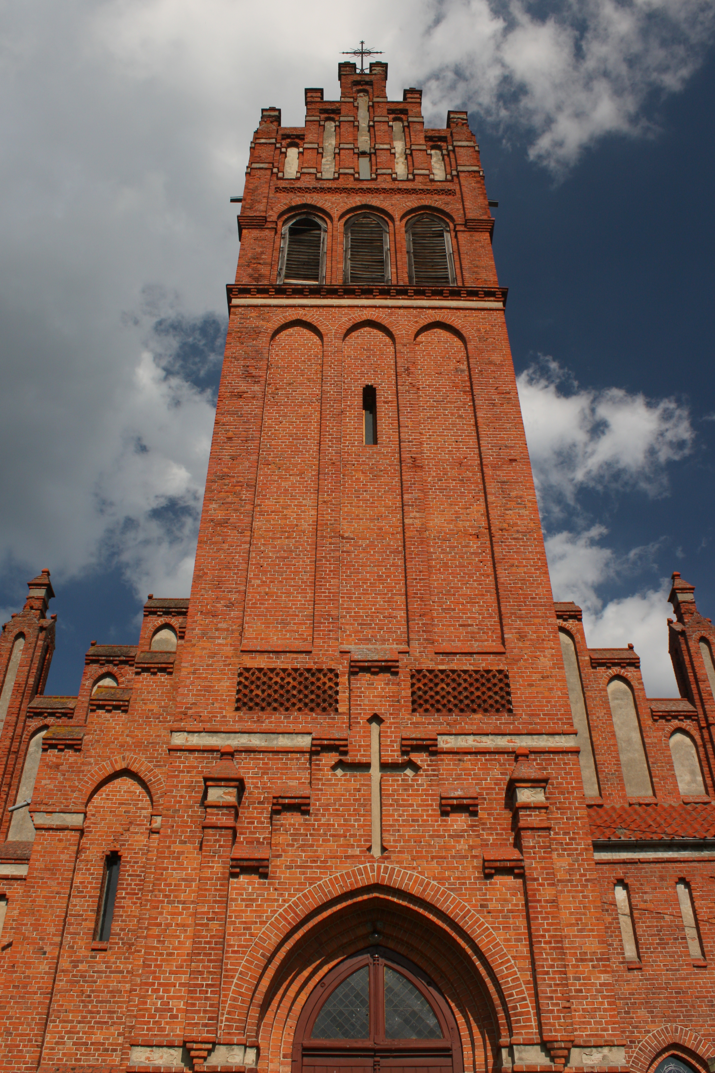 Church in Giławy.